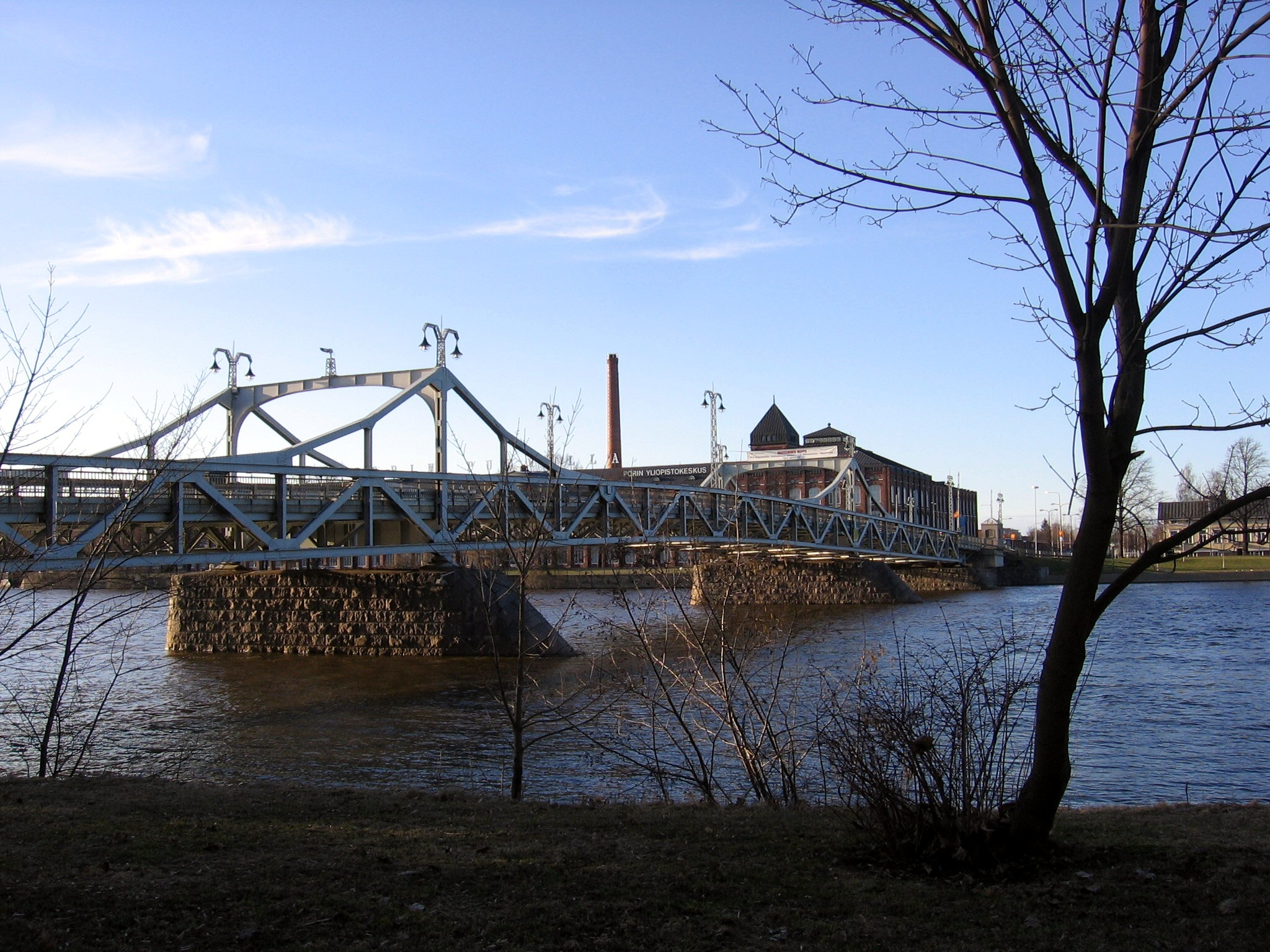 Pori Bridge